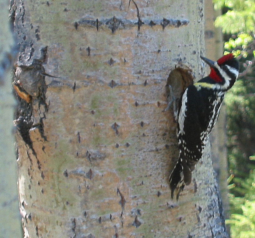 We shared the camp of a mating pair of these woodpeckers.